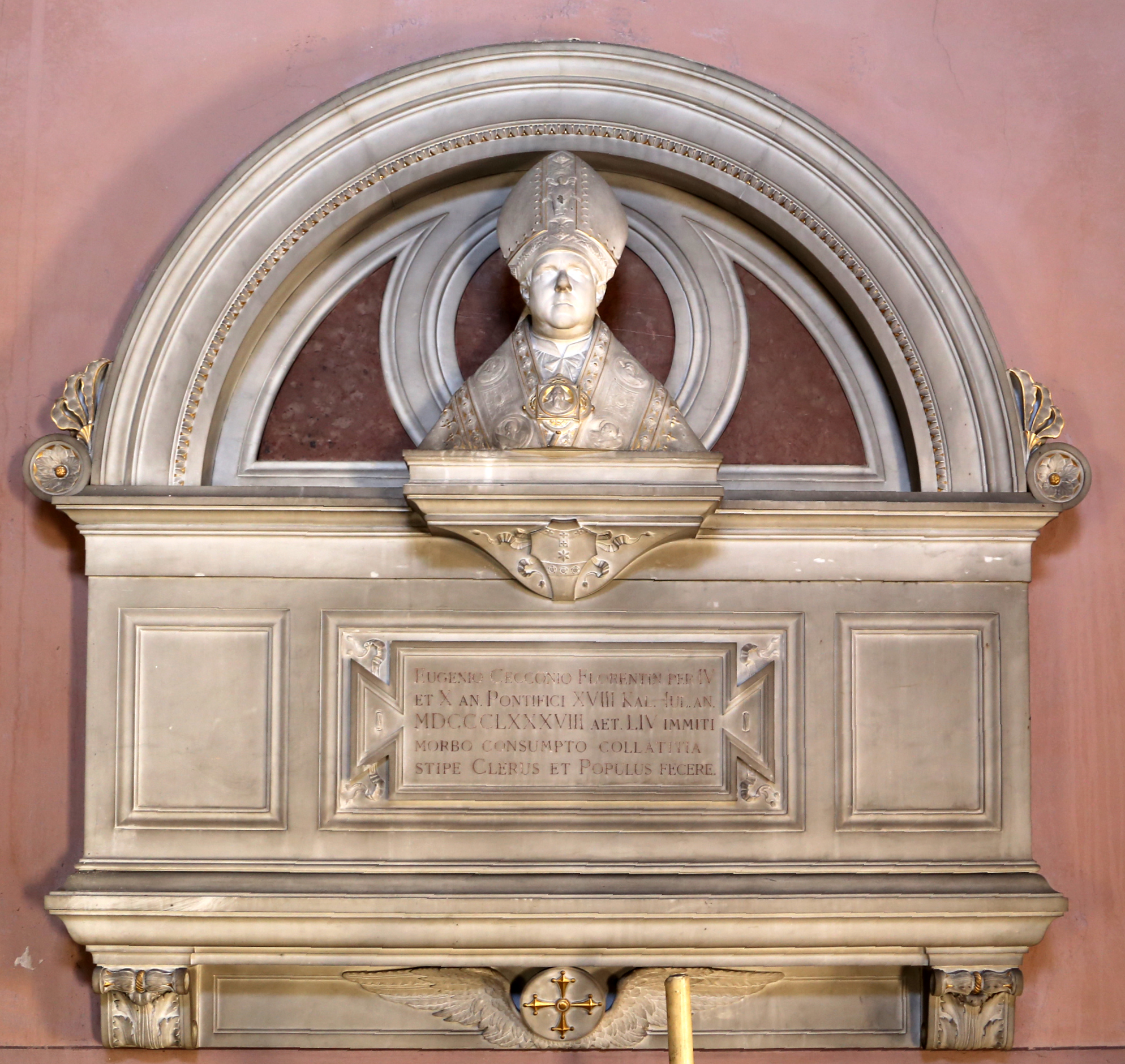 Cimitero della Misericordia (Florence)